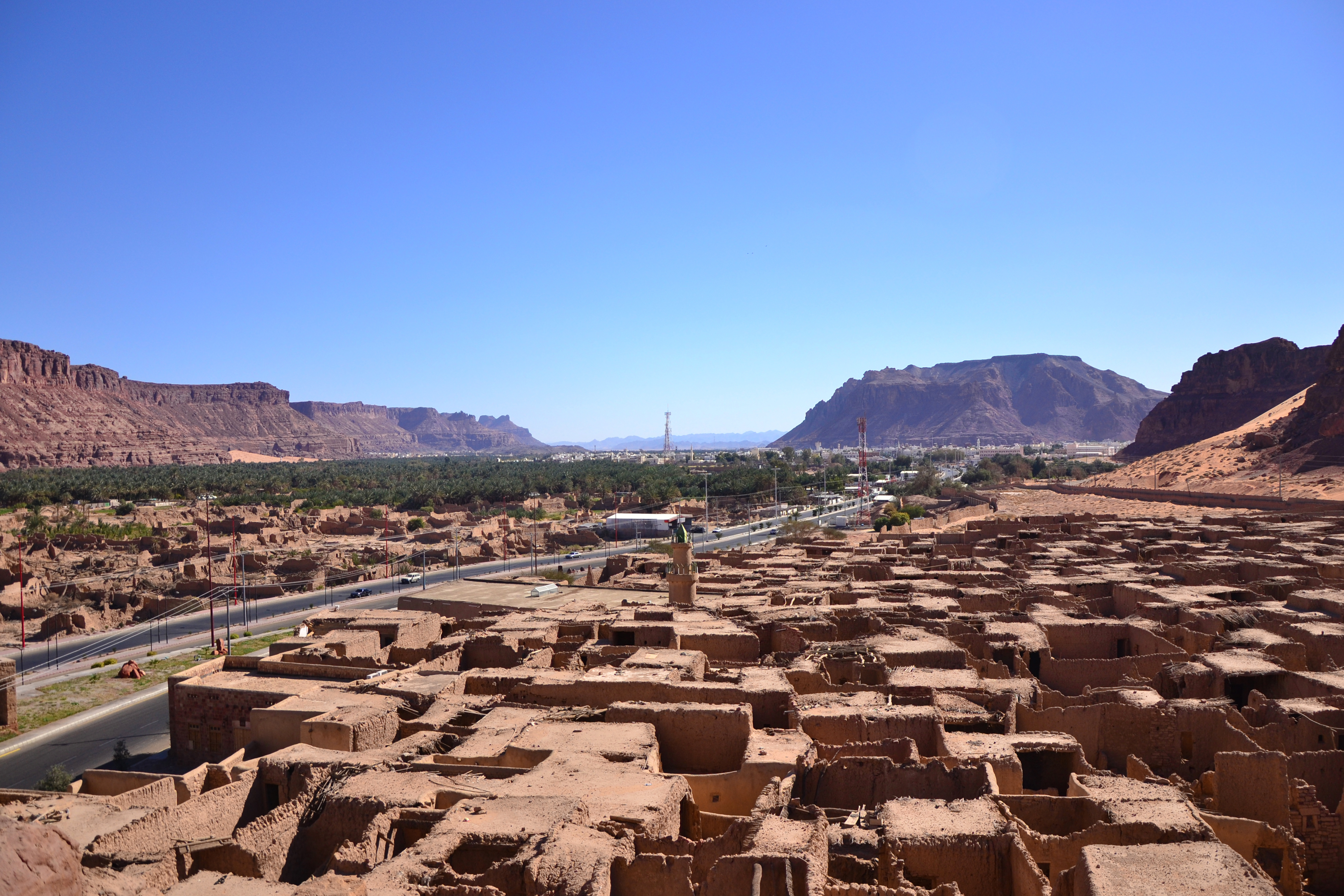 "City of Lions"